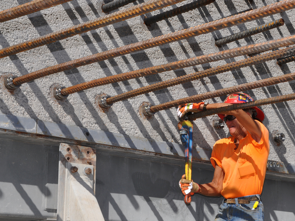 Ironworker tightening a one and three-quarter inch diameter rebar down a rebar connector.